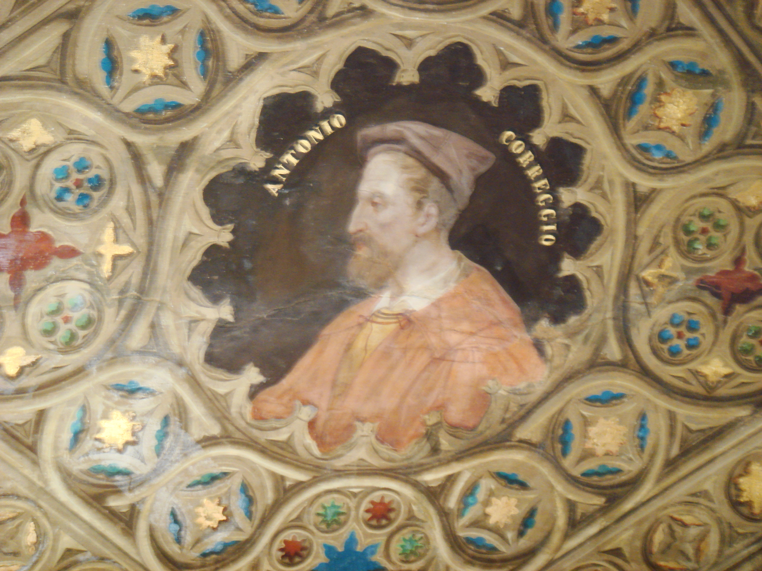 Rome, Italy. .